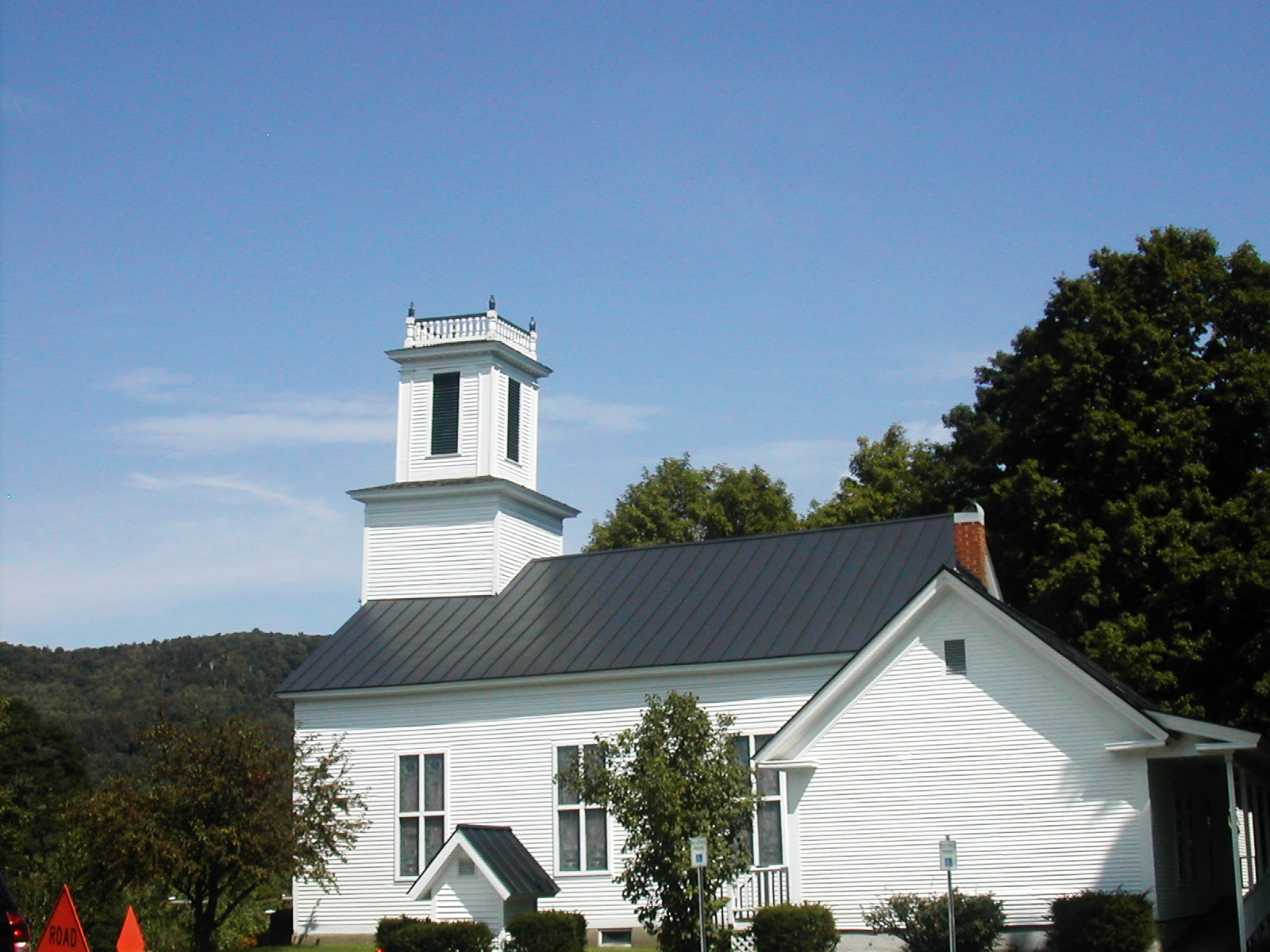 Warren Church, Warren, Vermont; part of the Warren Historic District